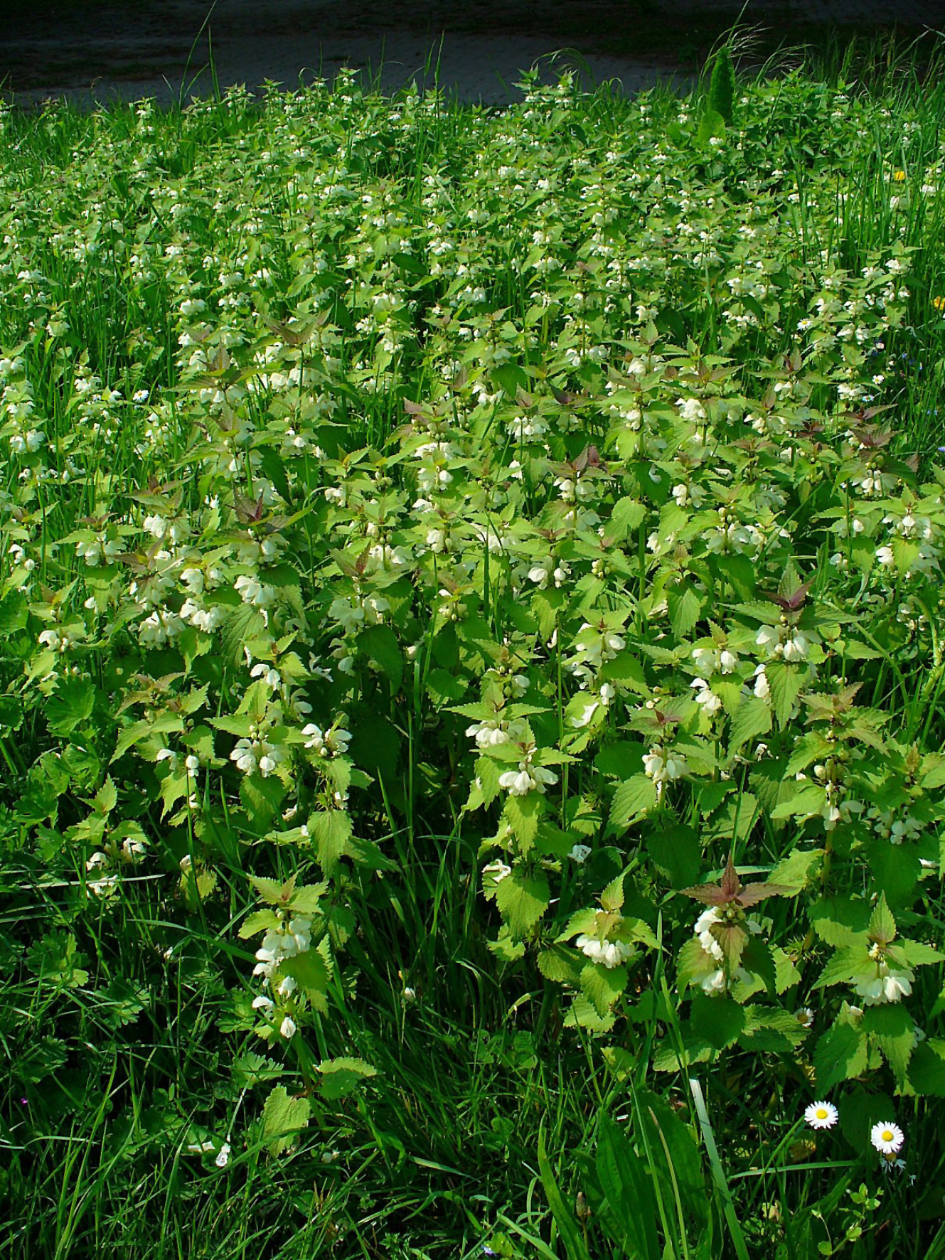 Lamium album, Lamiaceae, White Deadnettle, plant stand; Karlsruhe, Germany. The fresh, blooming sprouts without stems are used in homeopathy as remedy: Lamium album (Lam.)